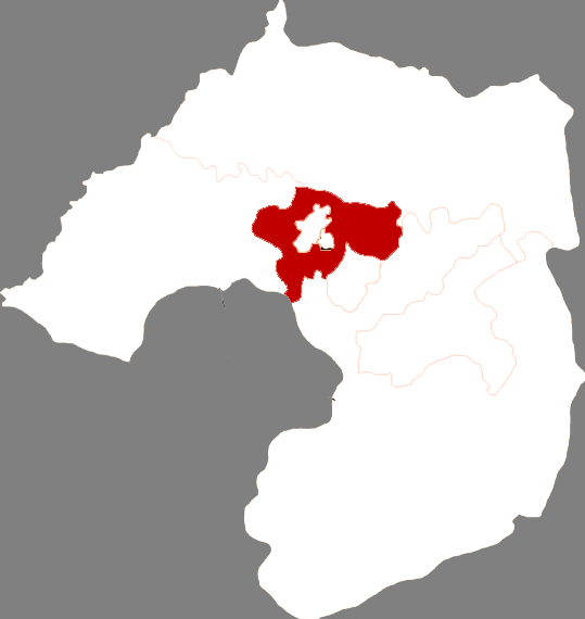 Location of Taizihe district in Liaoyang City, China